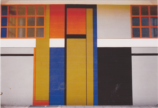 Public Art: Detail of the of the north wing facade of the building complex "Schöpfwerk" in Vienna, painted by Brigitta Malche, 1978/79